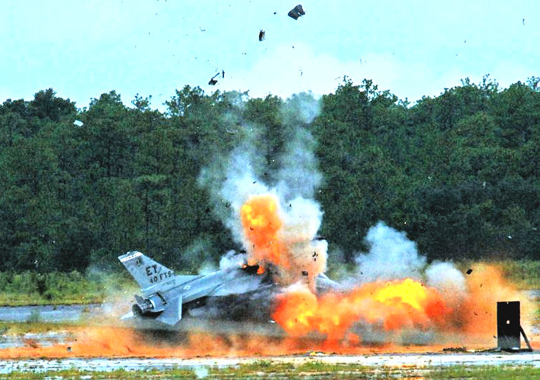 USAF F-16B block 1 #78-0097 explodes, sending debris and shrapnel into the air on August 19th on the Eglin AFB range. The explosion was a static test of the flight termination system to be used in the QF-16. The purpose was to demonstrate that the FTS design will be sufficient to immediately terminate the flight of a QF-16 as well as determine a range safety debris footprint. [USAF photo by Samuel King Jr.]